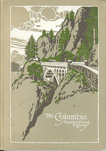 Cover of the book "The Columbia: America's Great Highway Through the Cascade Mountains to the Sea", second edition